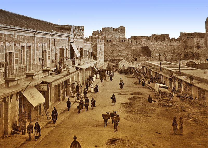 Jerusalem - Jaffa Gate.